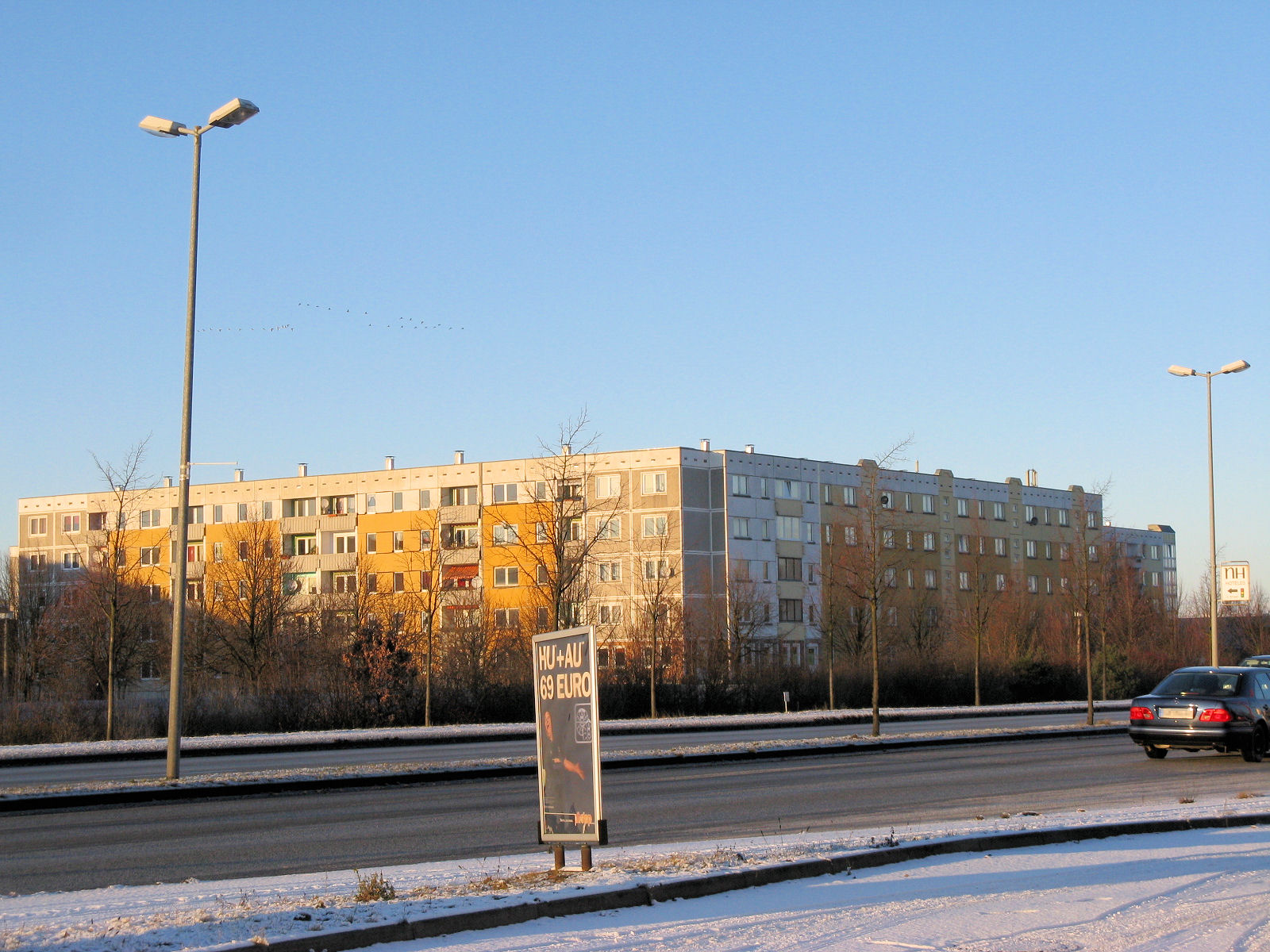 Schwerin-Krebsförden, Mecklenburg-Vorpommern, Germany